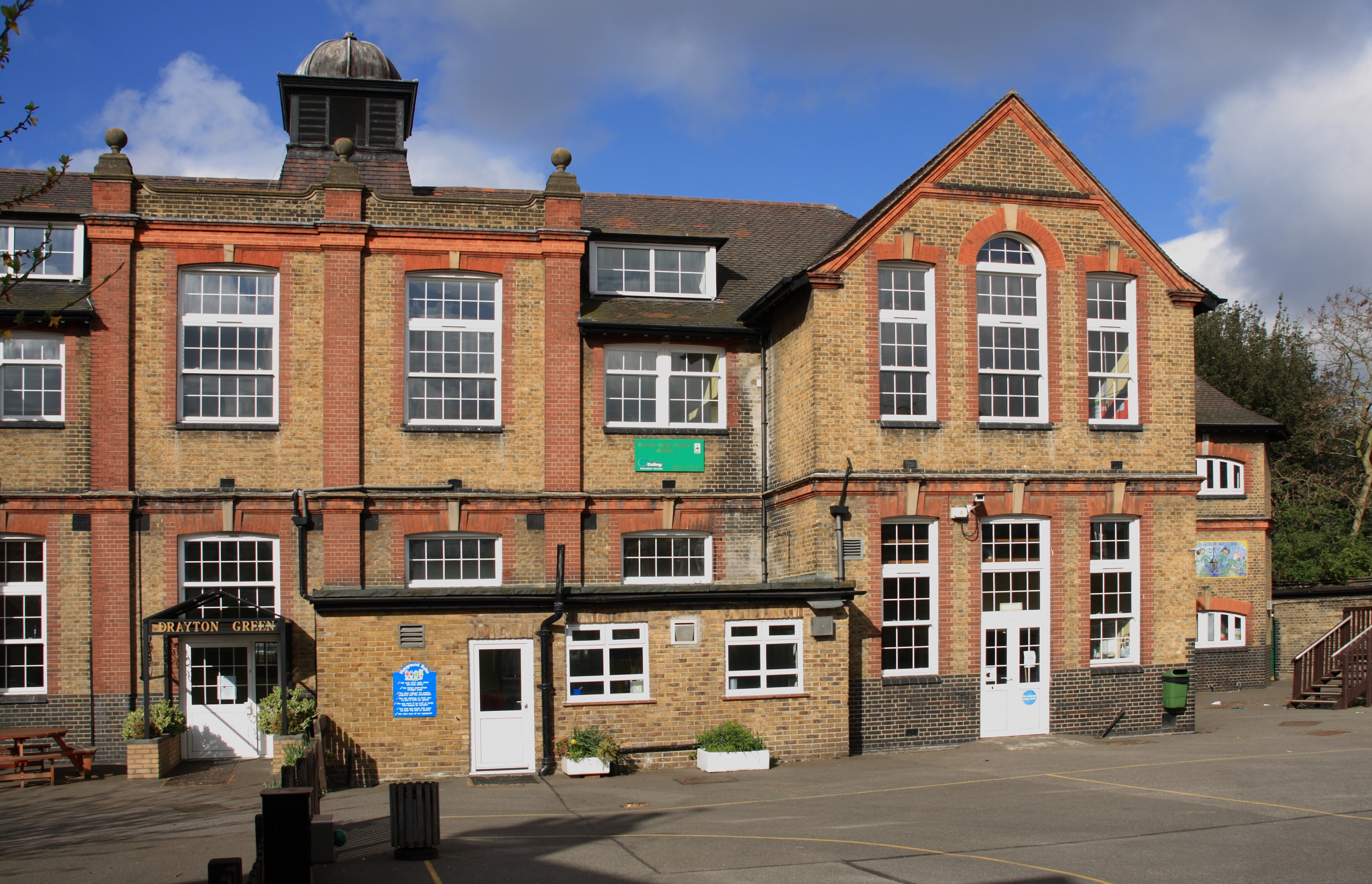 Drayton Grove, West Ealing, London W13: Drayton Green Primary School (1908). Yellow brick with red brick dressing, keystone window arches. A central square-shaped part louvered cupola bell house sits on tiled roof. An example of a late-Victorian school house. Designed by Charles Jones.